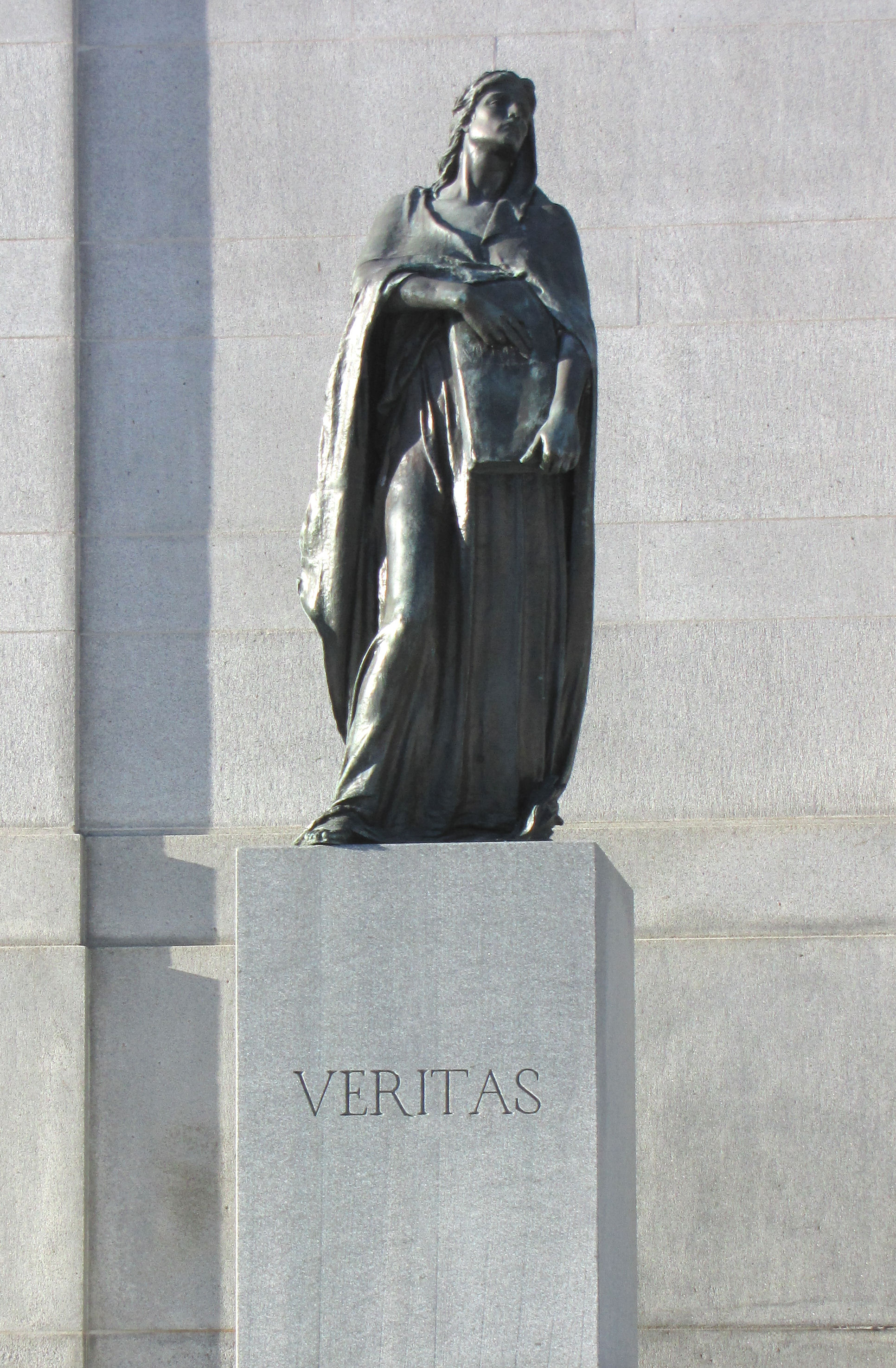 Statue of Veritas (Truth), by Walter Seymour Allward, outside Supreme Court of Canada, Ottawa, Ontario, Canada